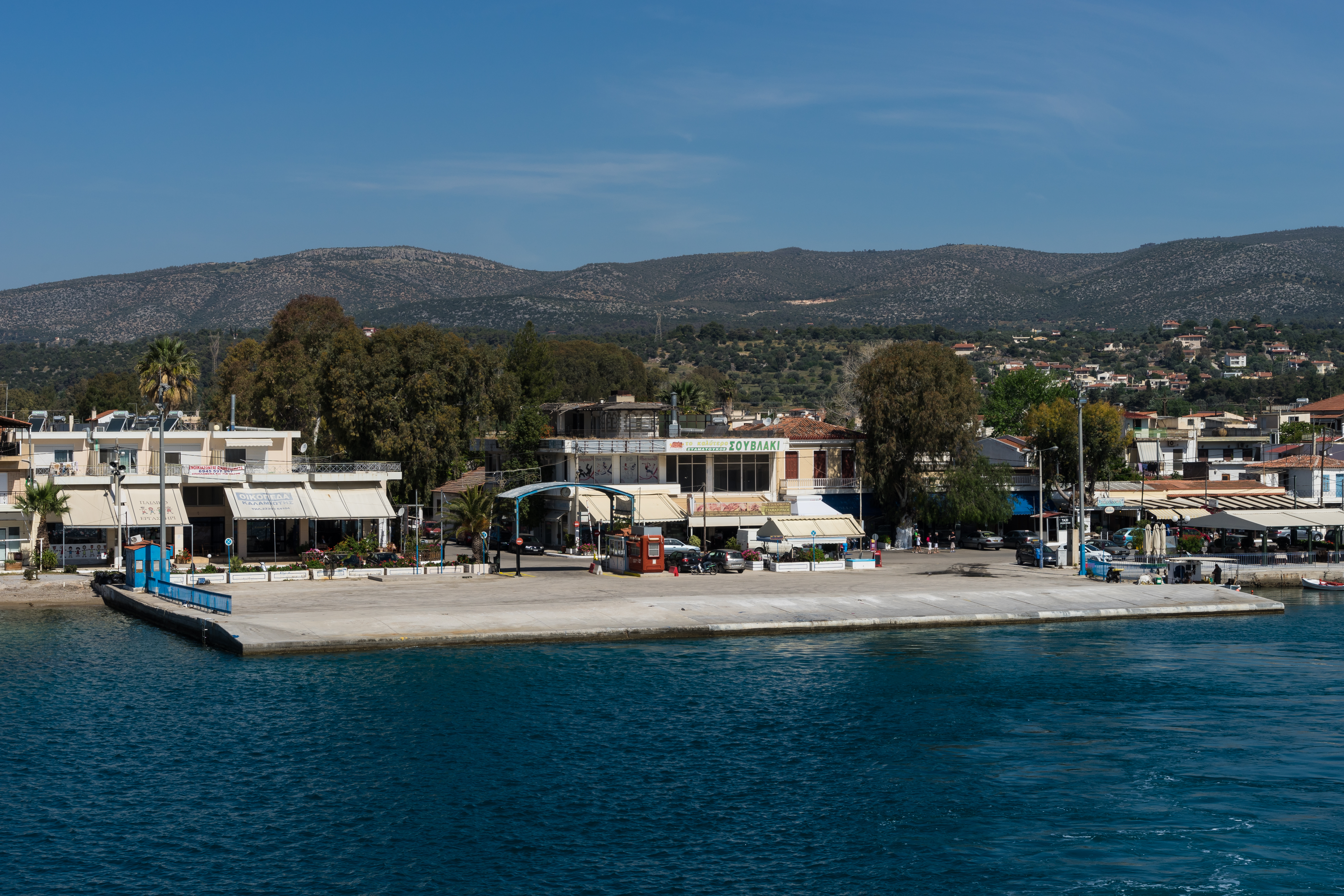 The ferry dock, Eretria, Euboea, Greece.